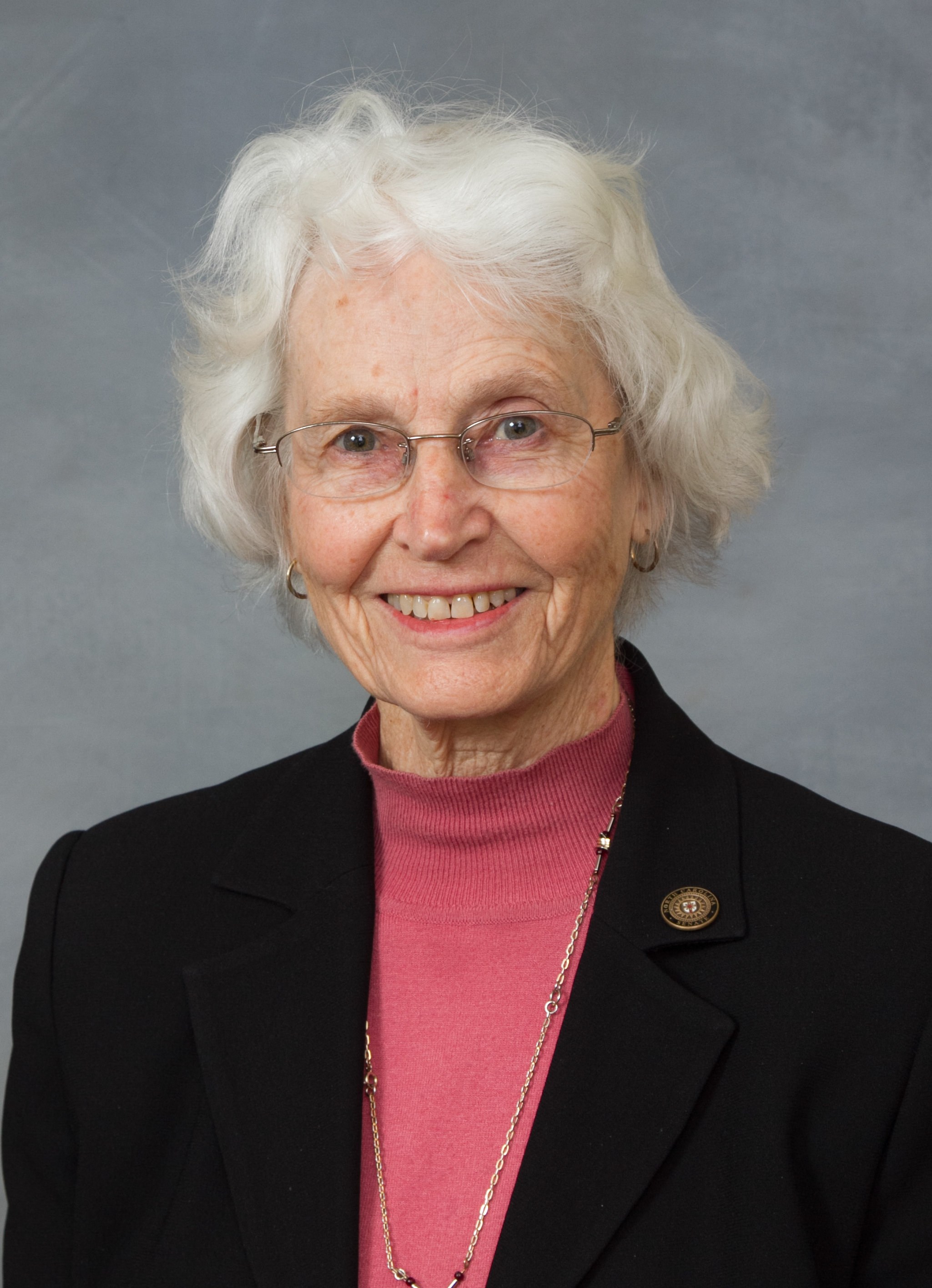 North Carolina State Sen Eleanor Kinnaird